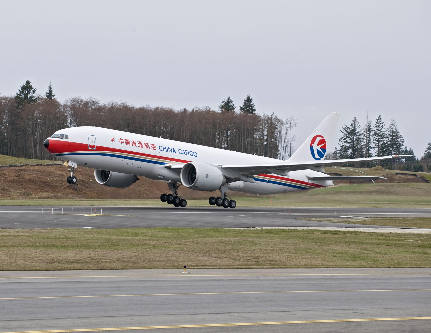 CEA B777F takeoff